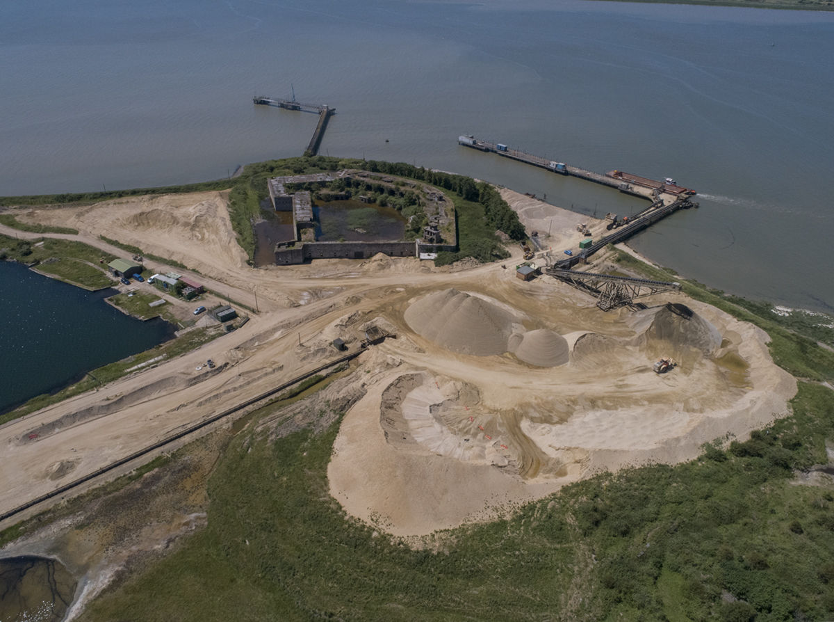 Cliffe Fort is a disused artillery fort built in the 1860s on the south bank of the river at the entrance to Cliffe Creek in the Cliffe marshes on the Hoo Peninsula in North Kent.